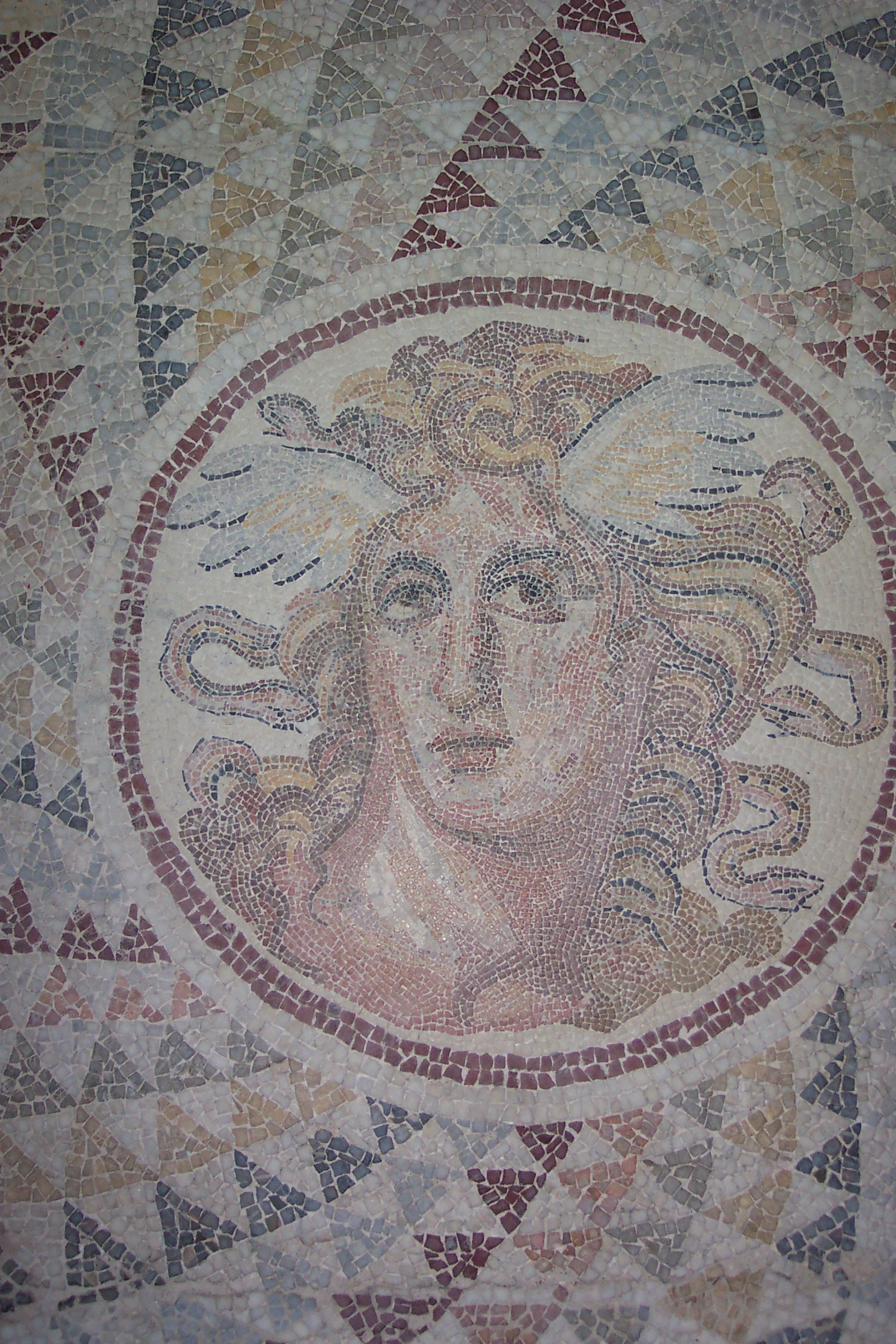 Medusa with tiles, Athens Archelogical Museum